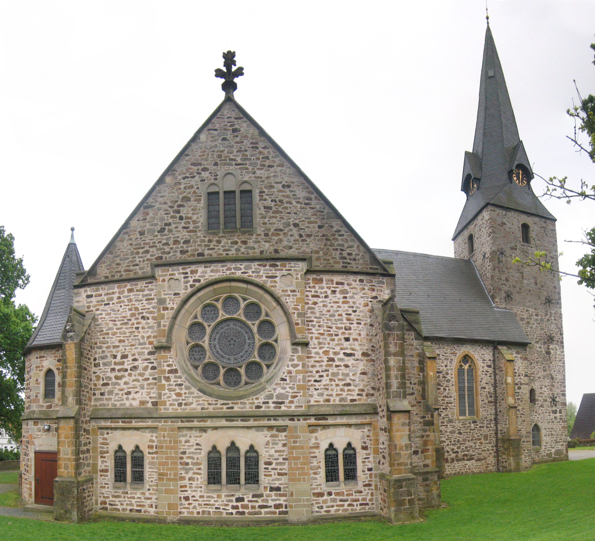 Church in Rödinghausen, District of Herford, North Rhine-Westphalia, Germany.